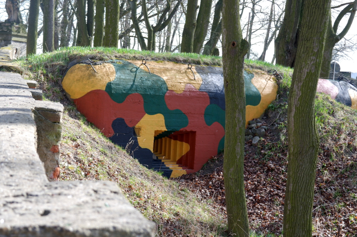 Military outdoor museum Smečno, at the western wall of the castle park, Smečno, Kladno District. Refurbished blockhouse of reinforced concrete (A-3/41/B2-80 Z light pillbox), model 37, from 1937, standing close to the boundary wall of the castle park, which saved it to be blown up during the German occupation.